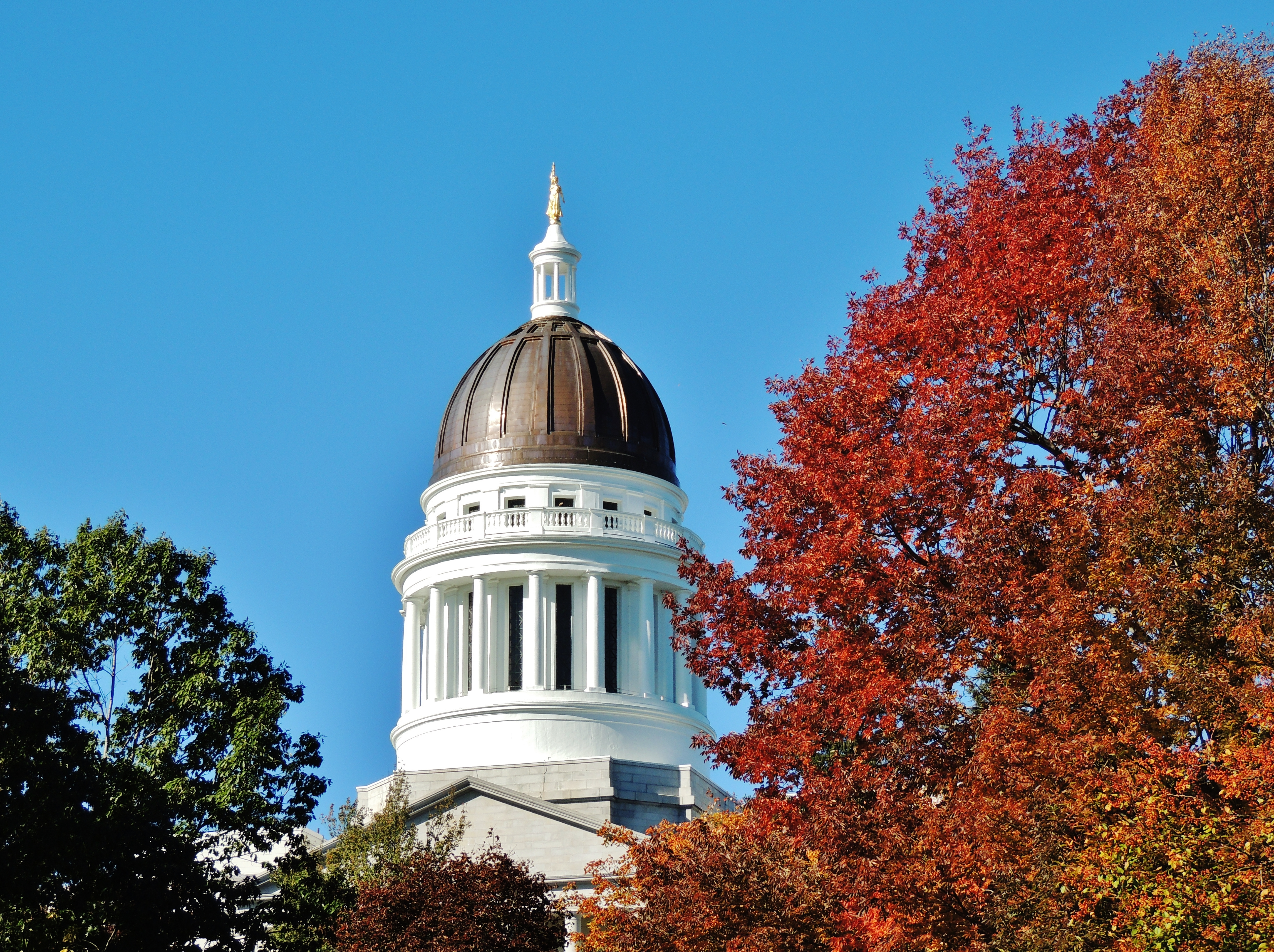 The State of Maine Capitol Building in the Fall.